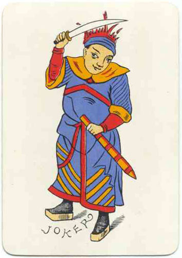 Joker for the card game of Khanhoo. Joker of a deck of cards produced in London by Chas Goodall & Son for the card game of Khanhoo which was introduced in England in 1891 by the Consul in China at that time Sir William Henry Wilkinson.